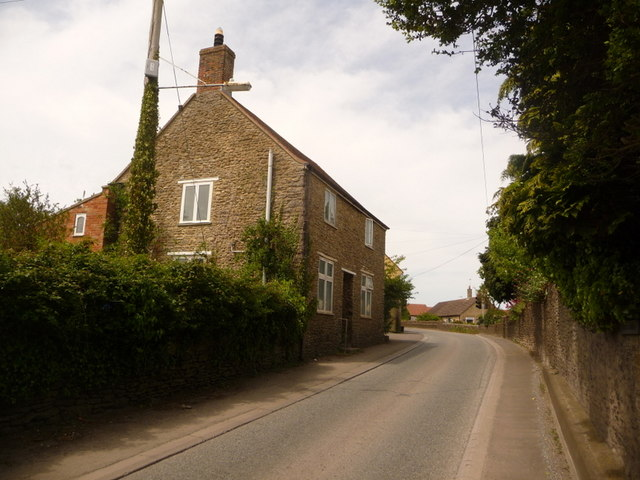 Yenston: the old village store According to a small plaque on the north side of this building, it was the village store until 1984. This part of the A357 through the village is now of only single-carriageway width, with traffic lights at each end to prevent vehicles from meeting unmanoeuvrably halfway along.